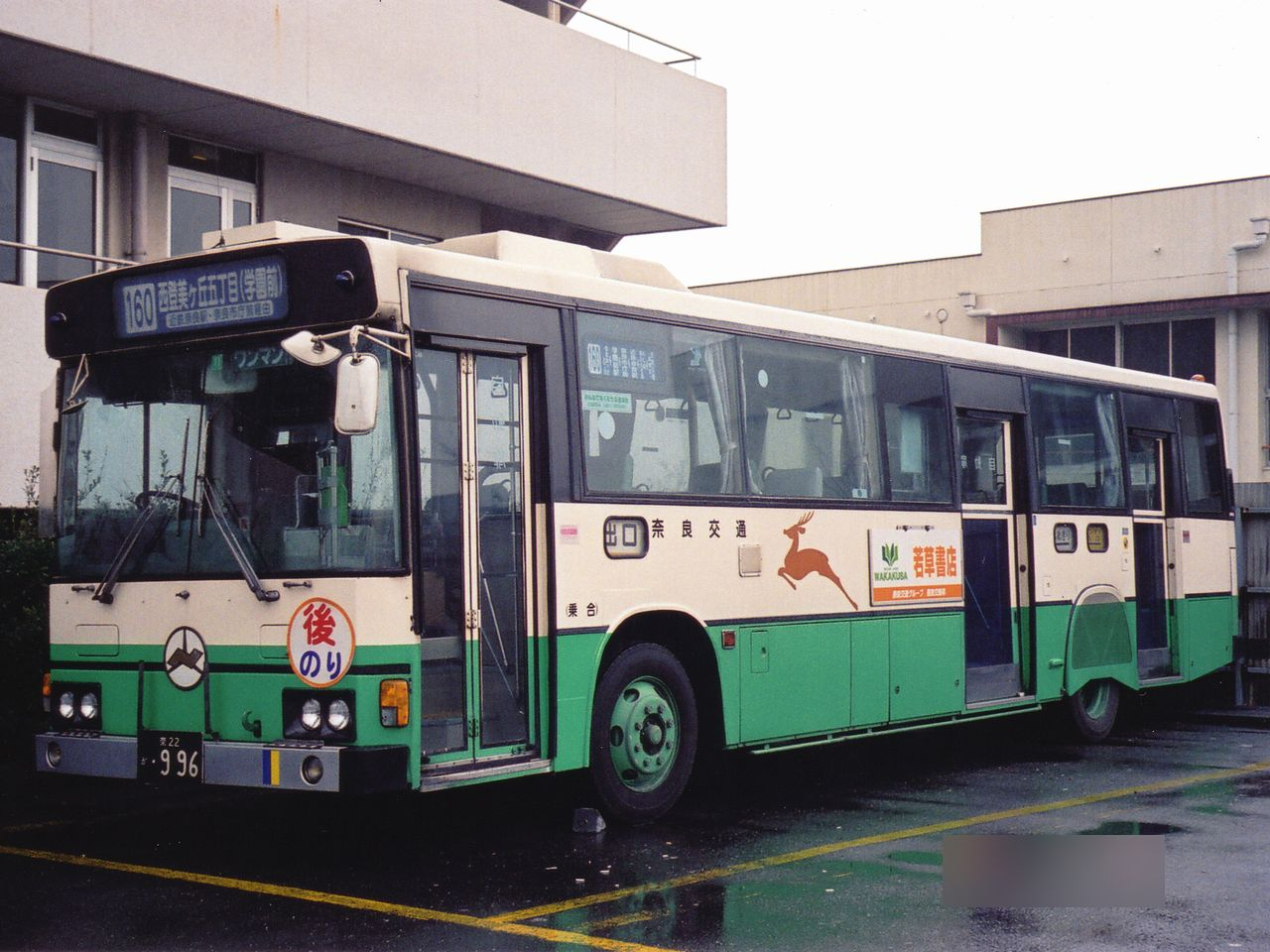 Nara Kotsu Hino P-HU226AA at Nara City (Takahatacho) This picture is obtaining and photoing permission of the persons concerned.